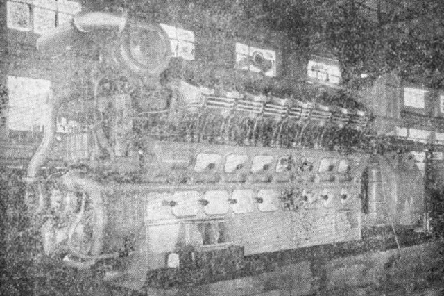 The first Dalian 16V240Z diesel engine designed by Dalian Locomotive Work in 1969